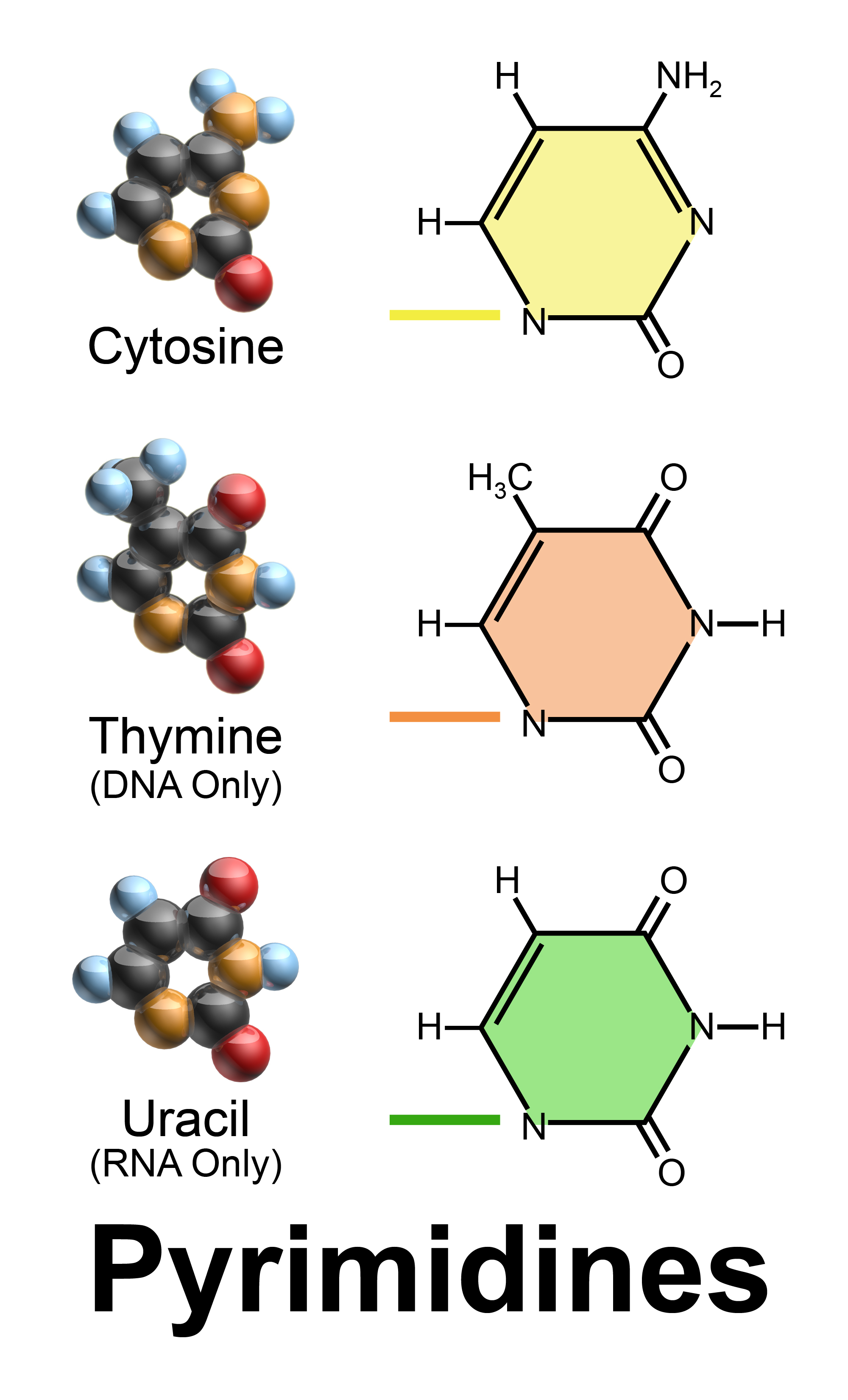 Pyrimidines (Cytosine, Thymine, and Uracil). See a related animation of this medical topic.